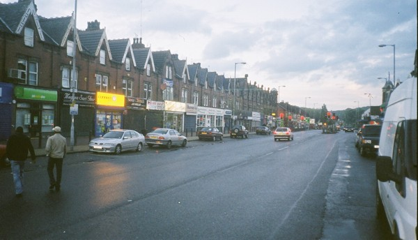 Harehills Parade view from Roundhay Road.